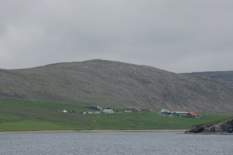 Housetter and the Beorgs of Housetter